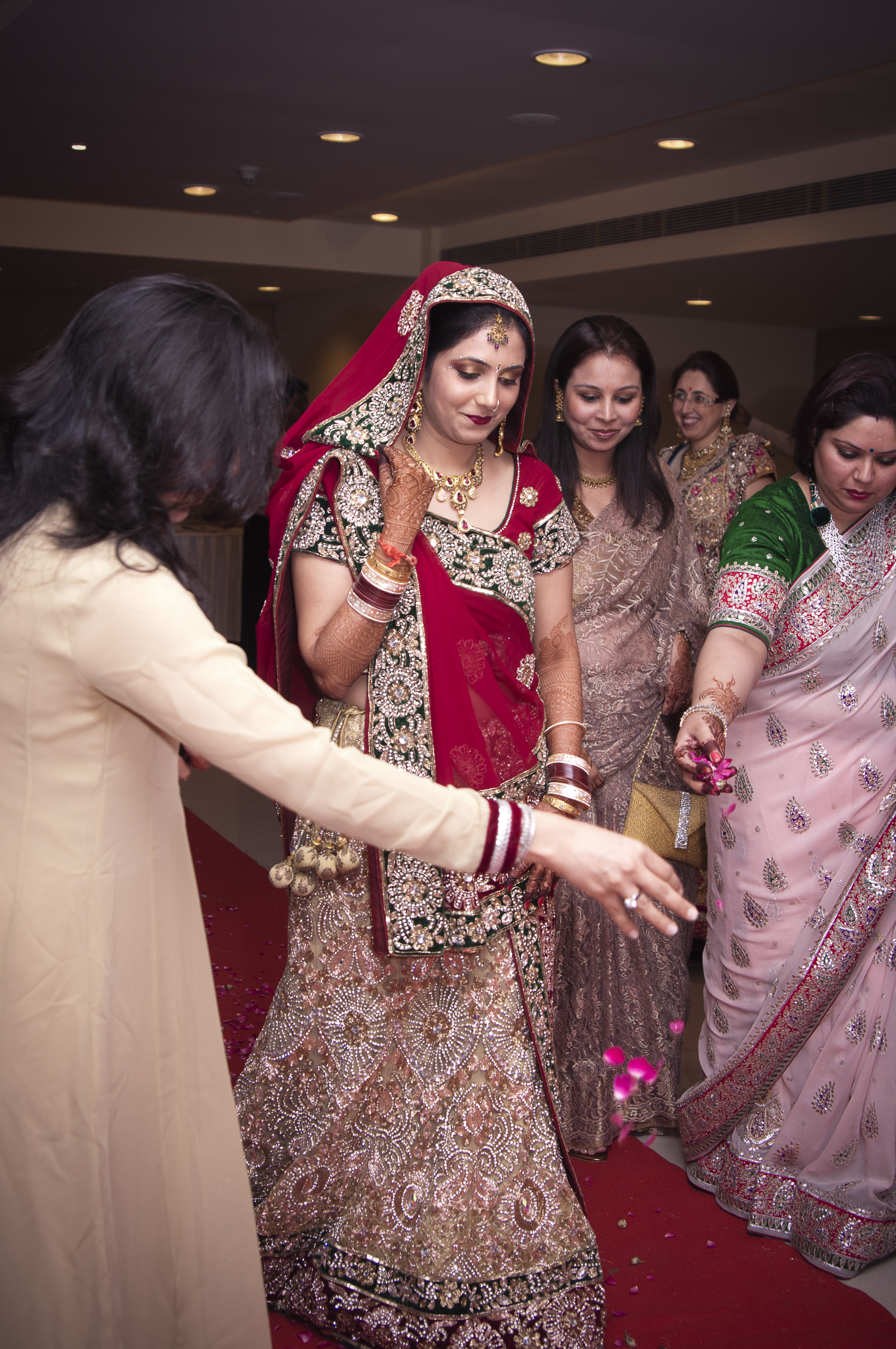 Bride entering the hall - Indian Hindu Wedding